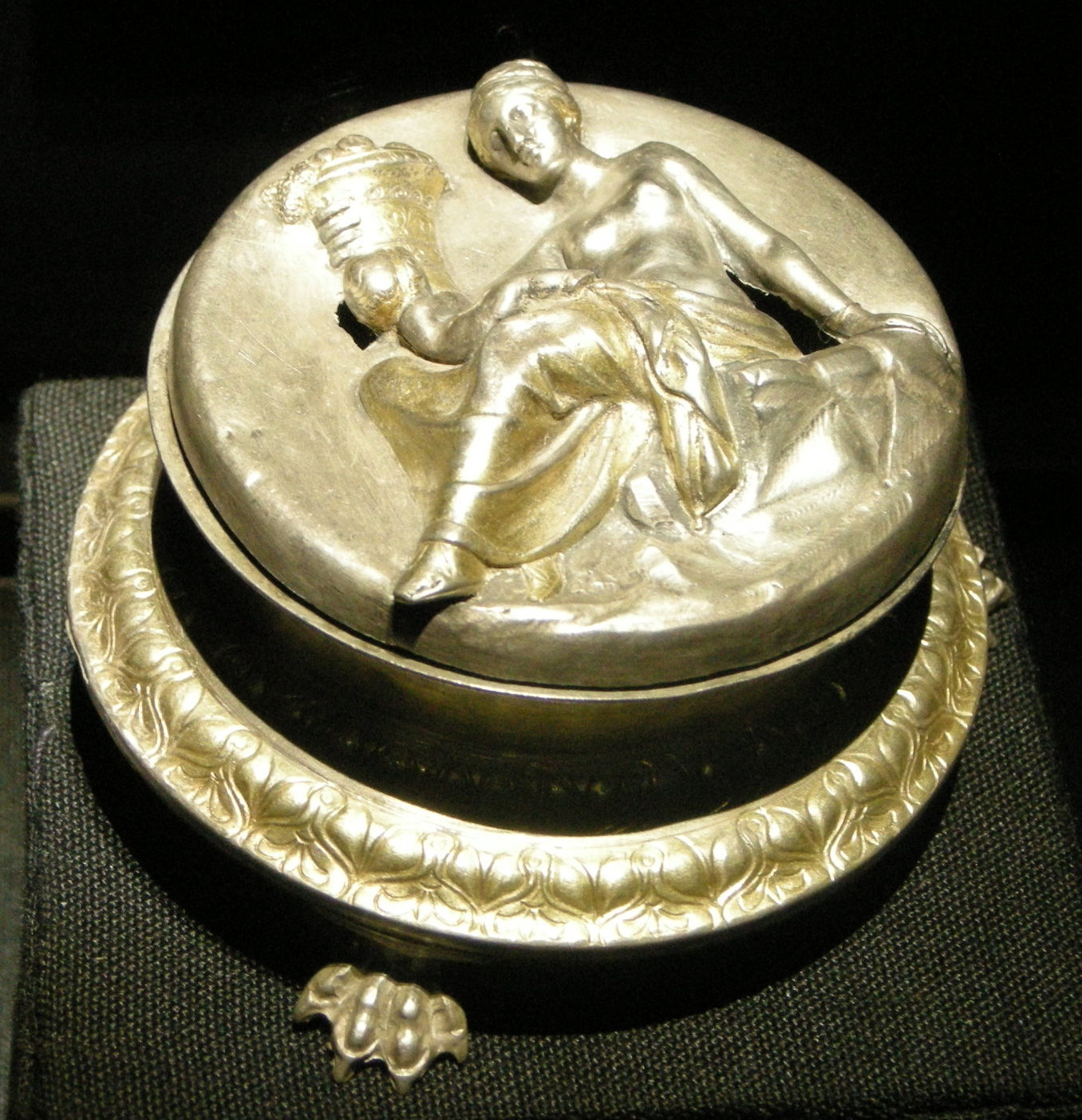 read filename please (it)